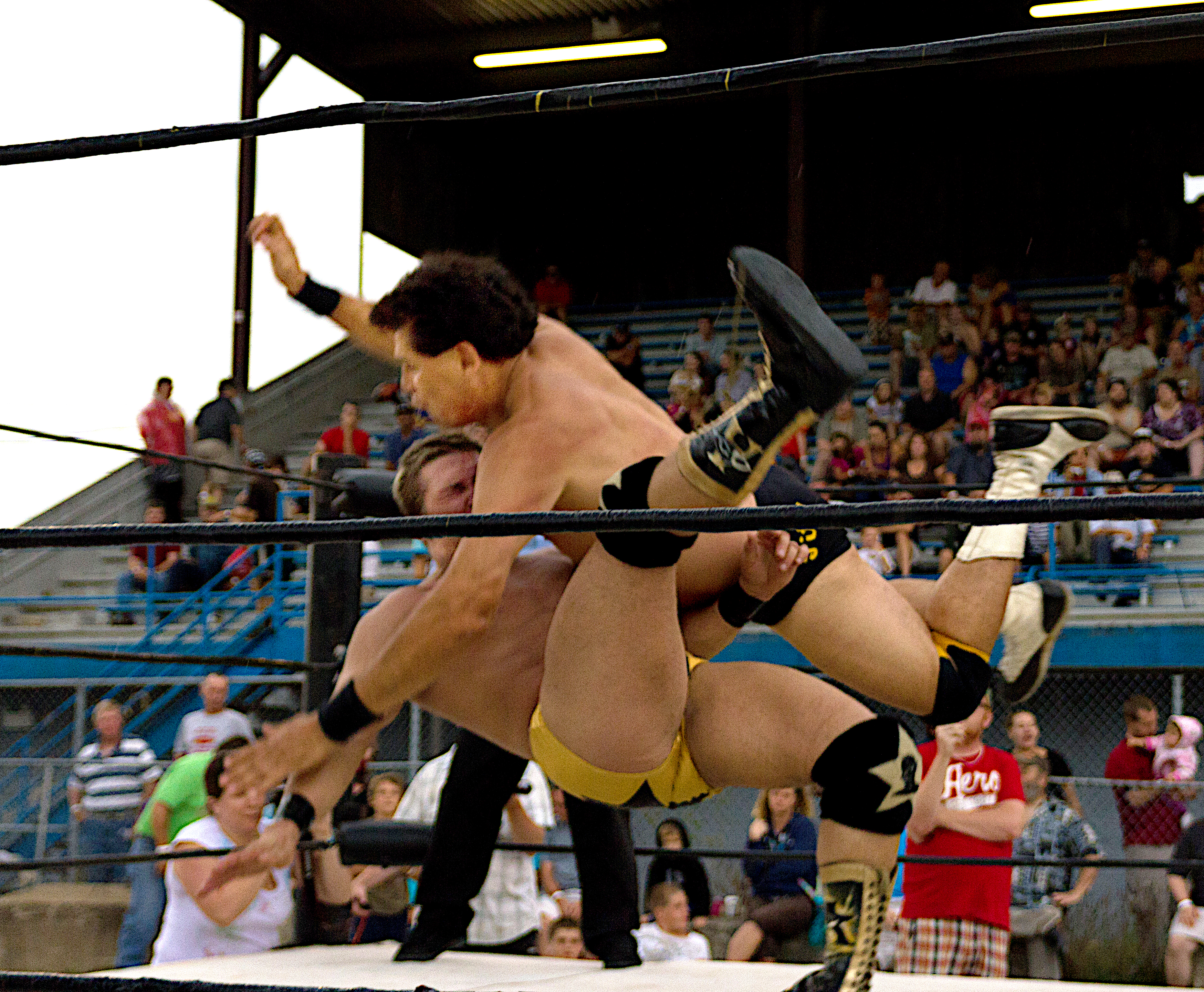 Tito Santana delivering a flying forearm smash to Mr. Atlantis